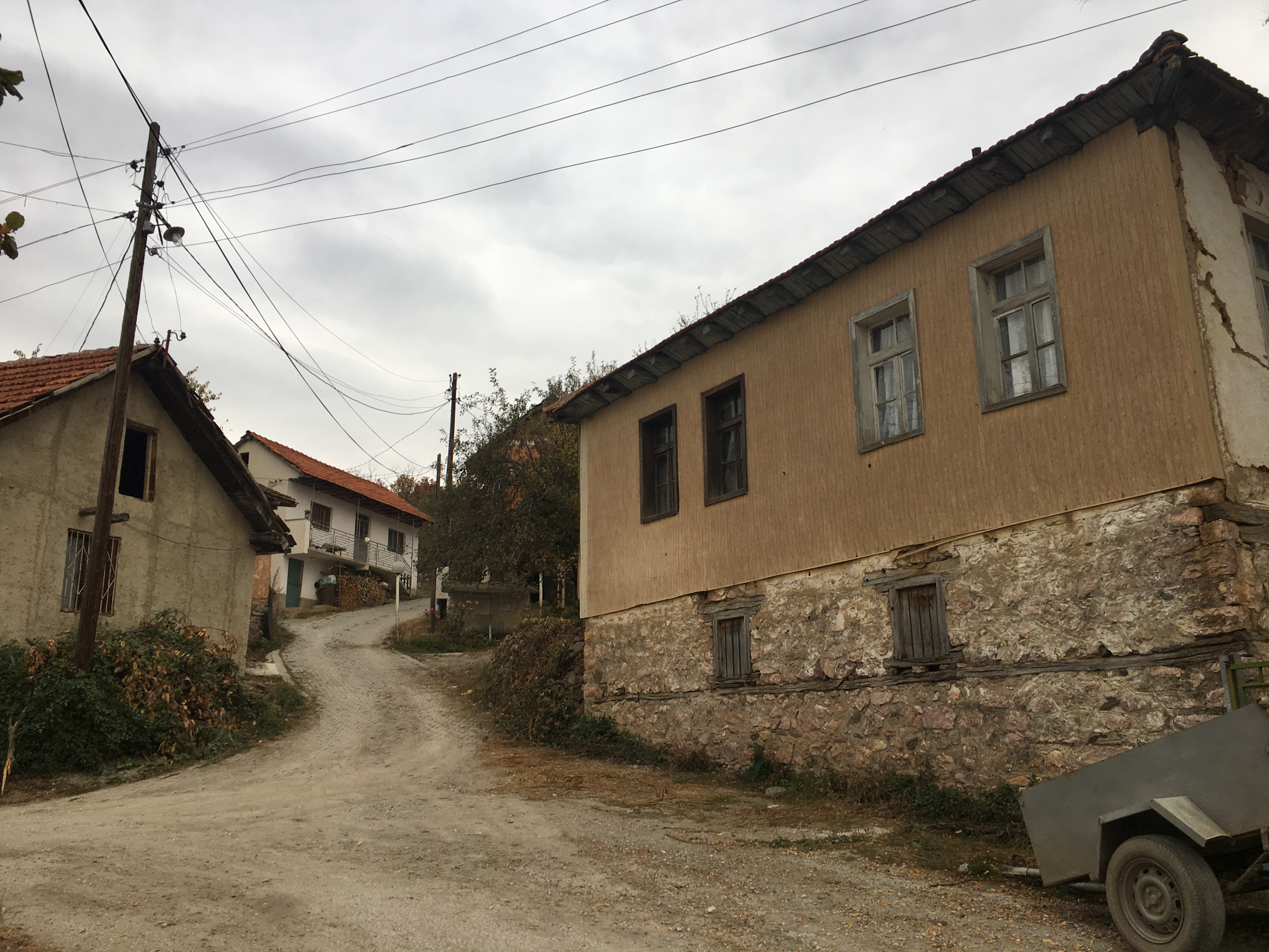 Wikiexpedition to Kopačka